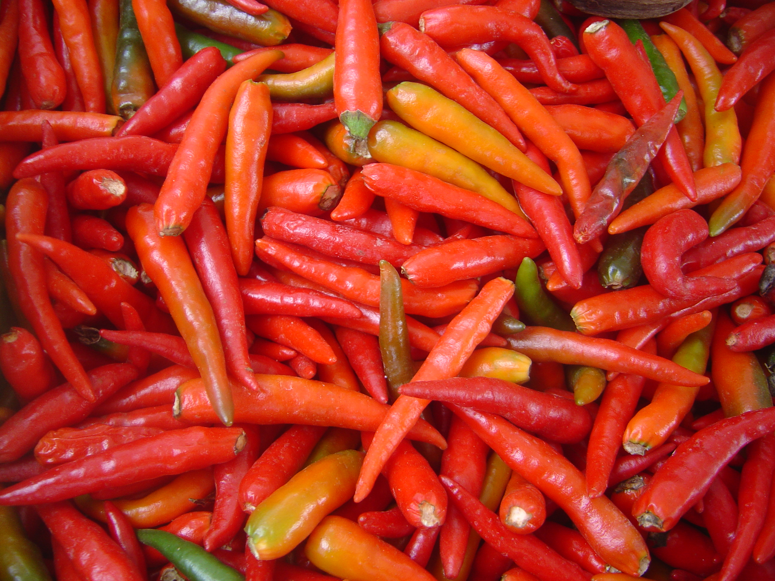 Some red hot peppers, unknown species/variety